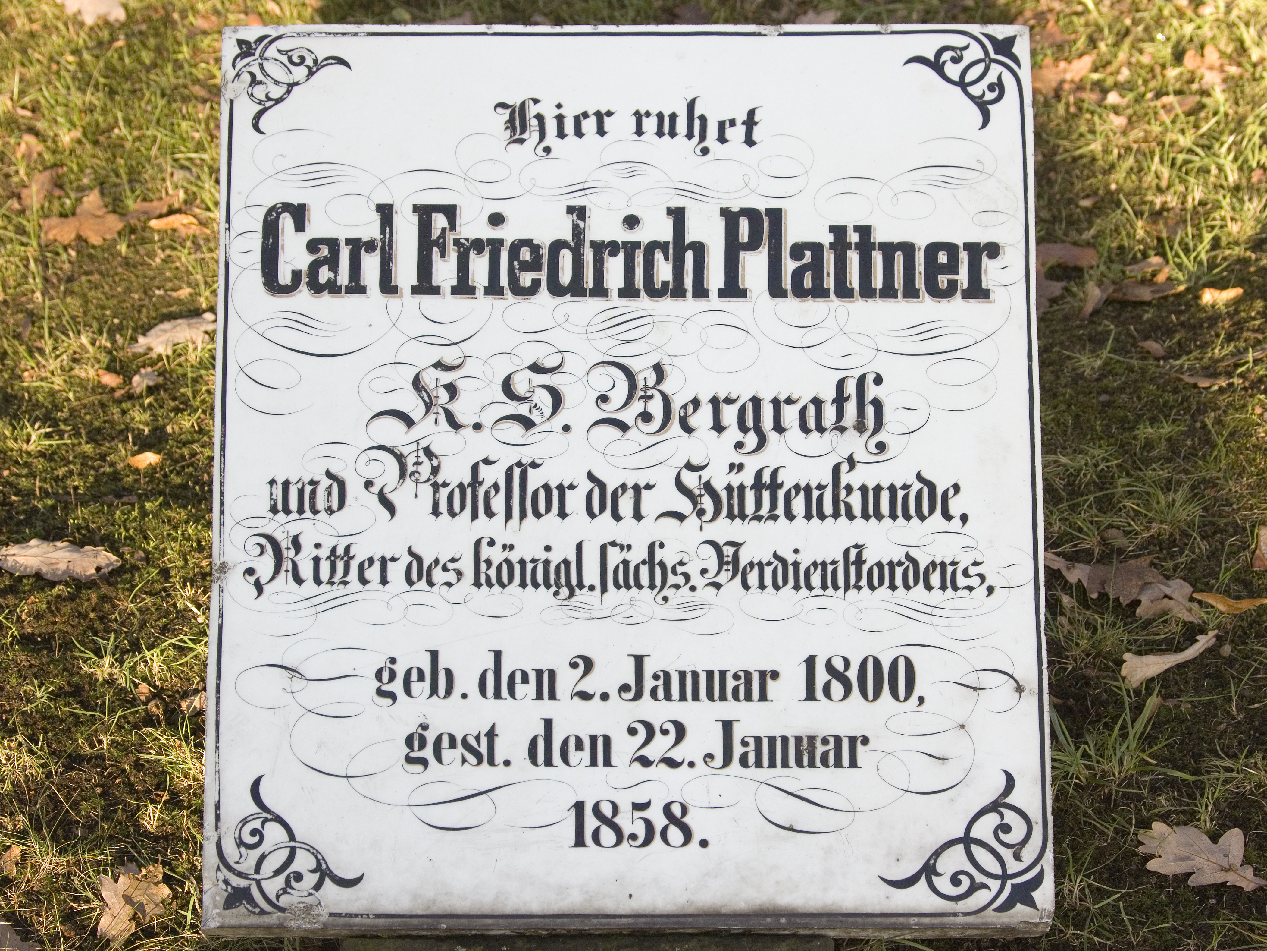 Carl Friedrich Plattner, plaque at his grave in Freiberg